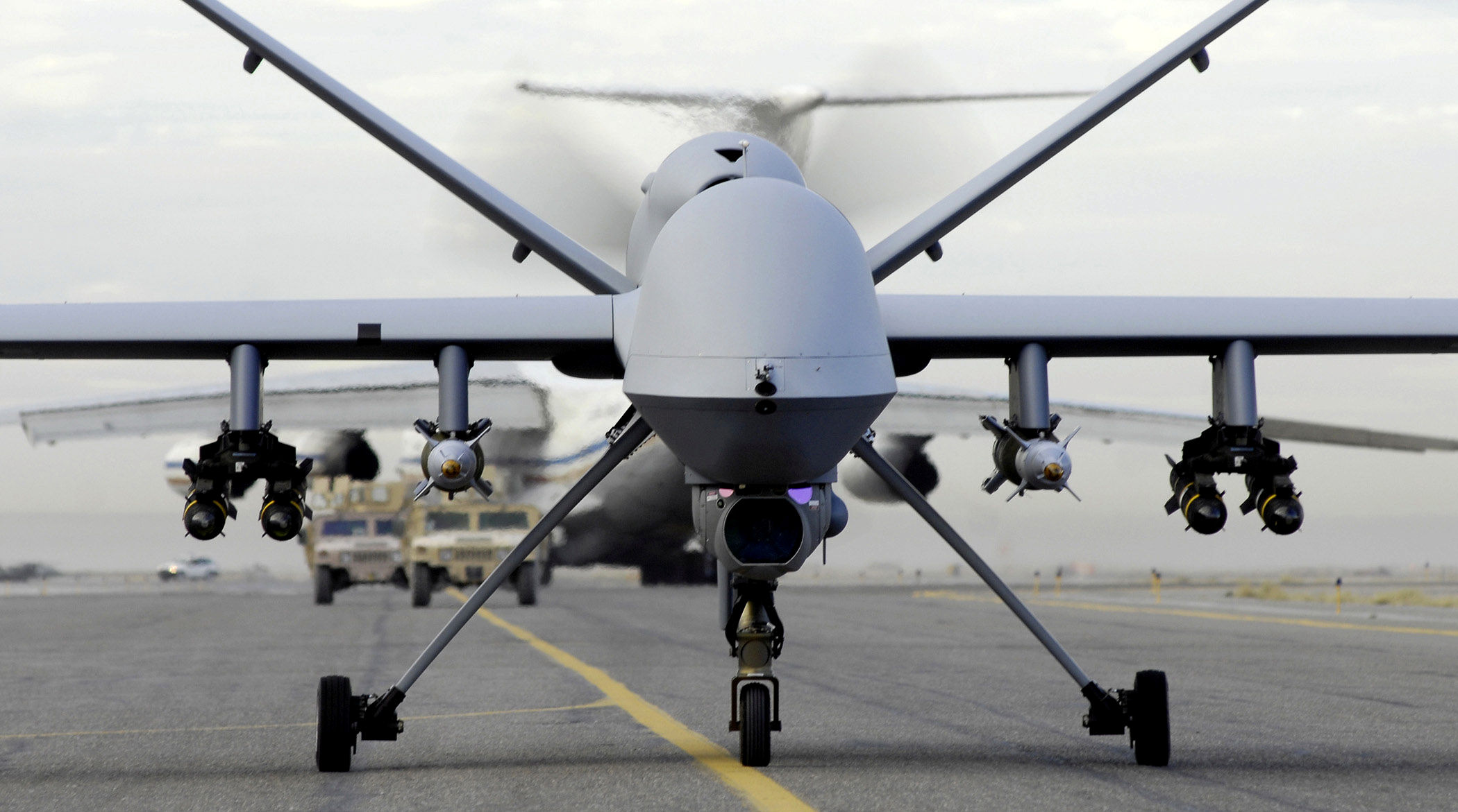 138th Attack Squadron - MQ-9A Reaper